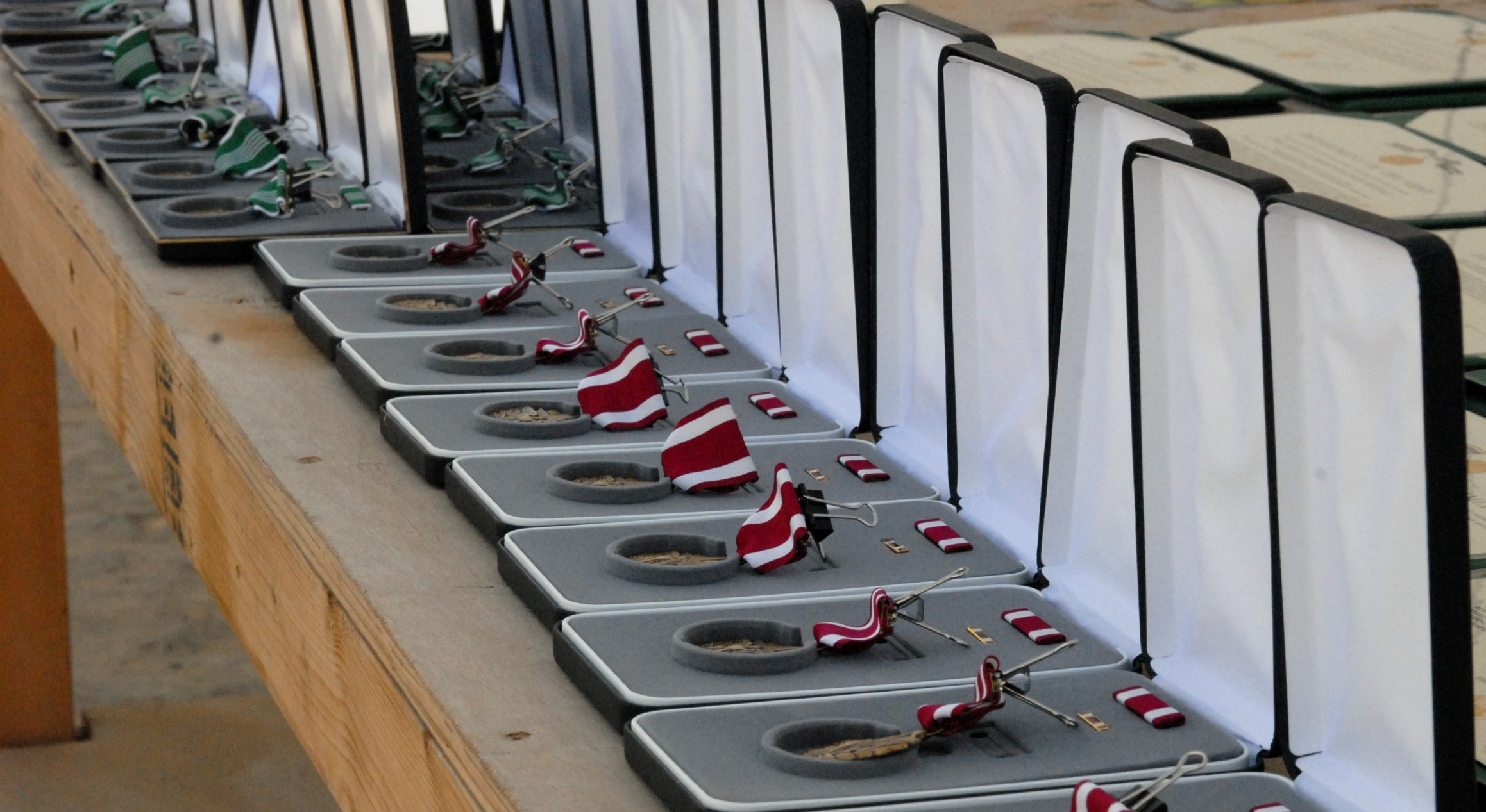 Awards are lined up, ready to be presented to Soldiers of Headquarters, Headquarters Company, 41st Infantry Brigade Combat Team at Camp Adder, Iraq, March 6. Medals and awards included Meritorious Service Medals, Army Accommodation Medals, Army Achievement Medals, Combat Infantry Badges, and Combat Action Badges. The Soldiers were acknowledged for their individual service and performance while serving in Iraq. 41st Infantry Brigade Combat Team Photo by Spc. Anita VanderMolen Date: 03.06.2010 Location: CAMP ADDER, IQ Related Photos